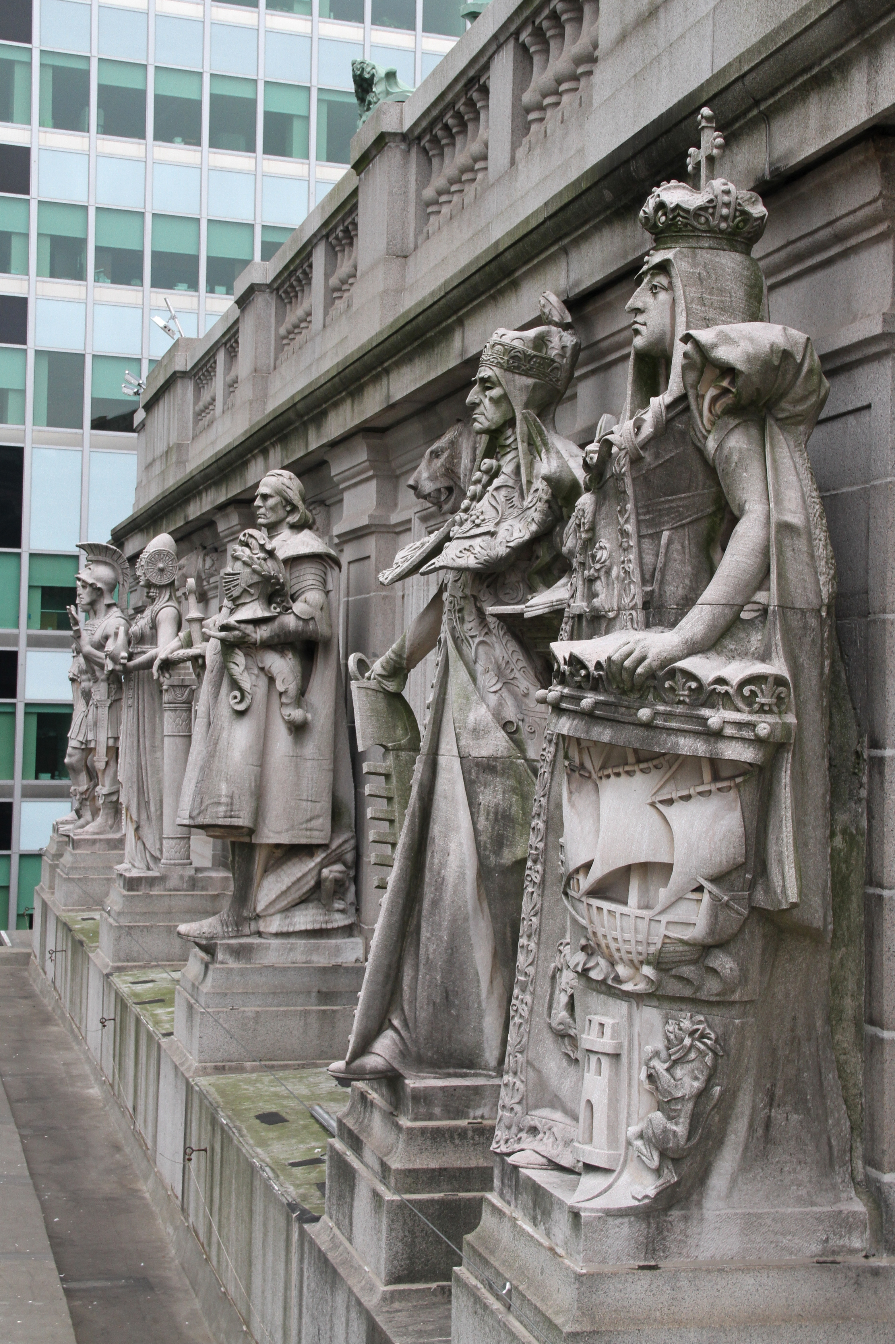 A group of the sculptures from the U.S. Custom House cornice.